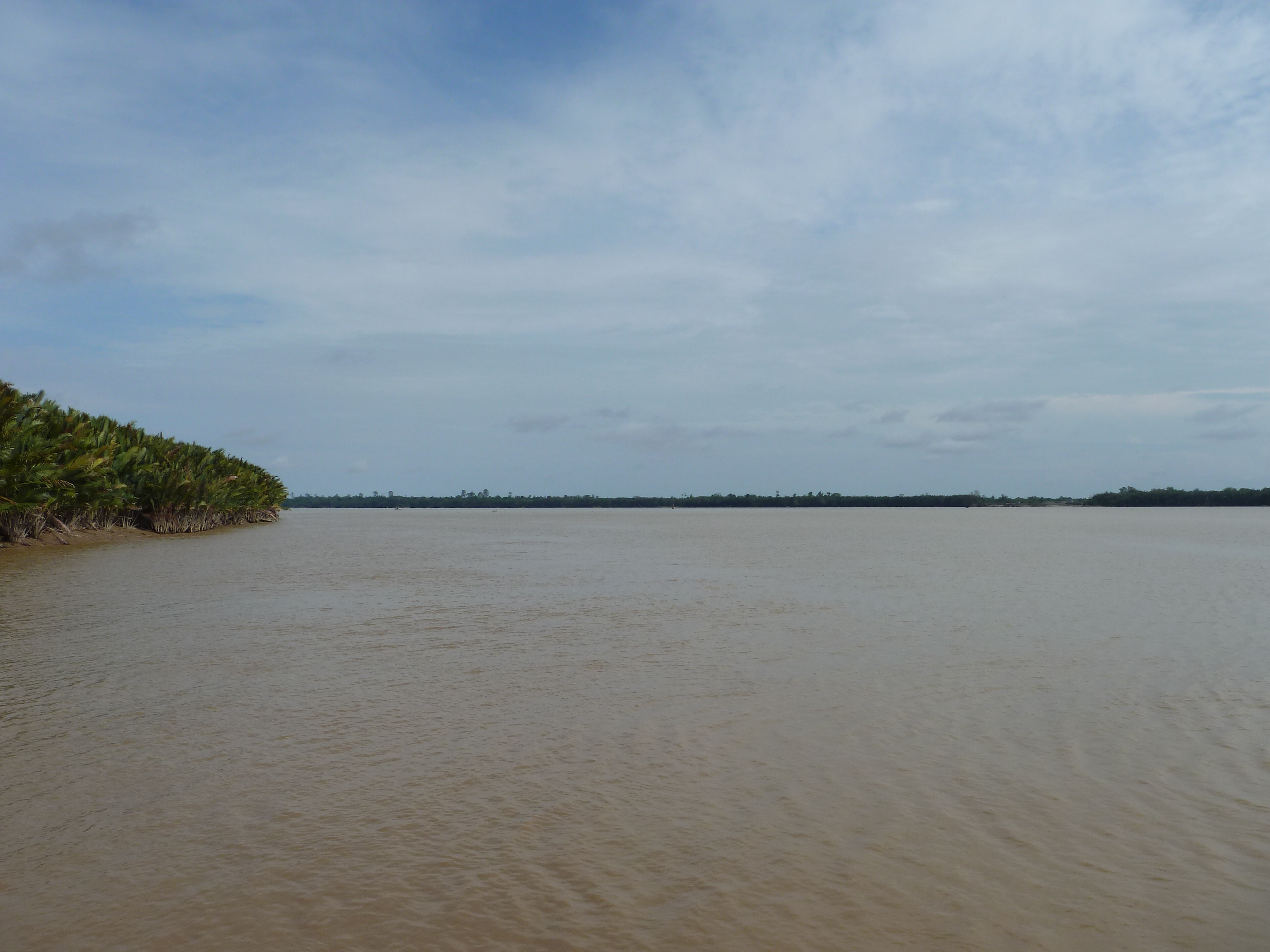 Saribas River, Sarawak